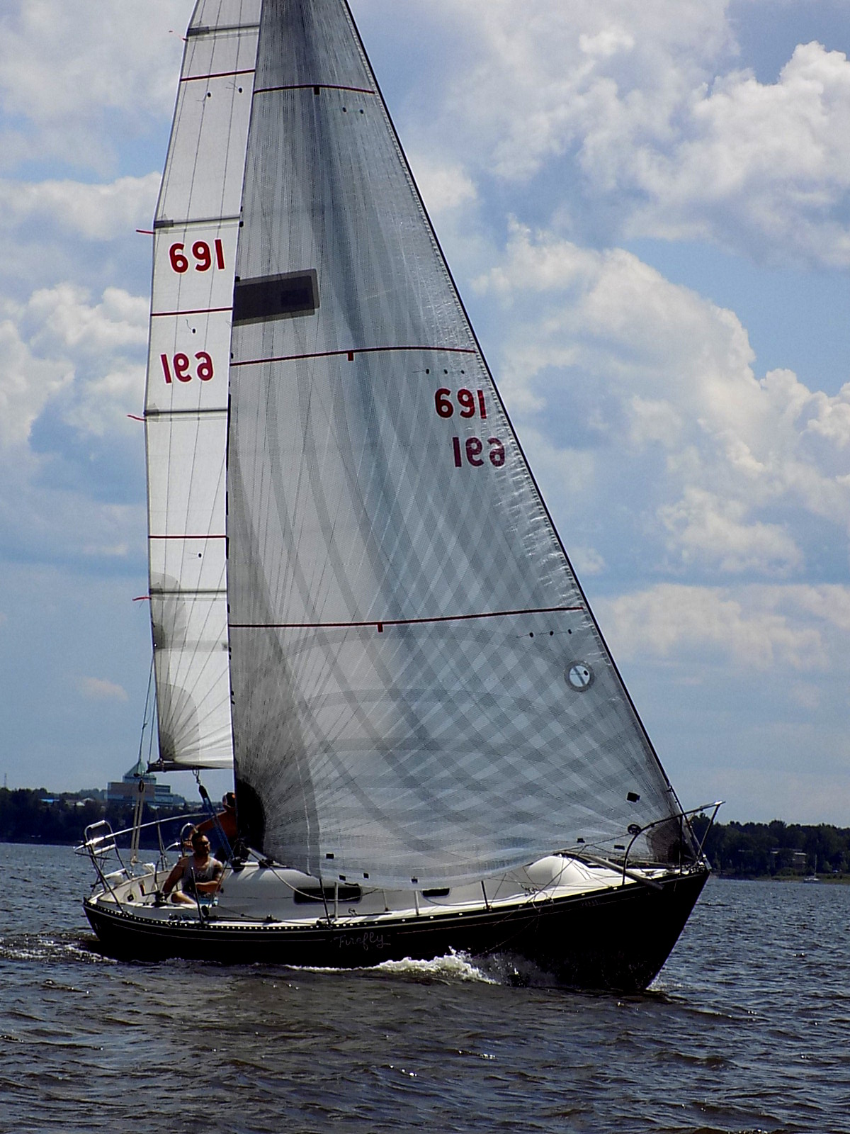 An O'Day 28 sailboat named Firefly.